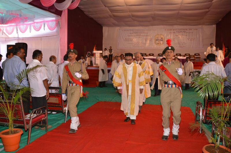 Seventeenth Convocation of Dr. Babasaheb Ambedkar Technological University, Lonere